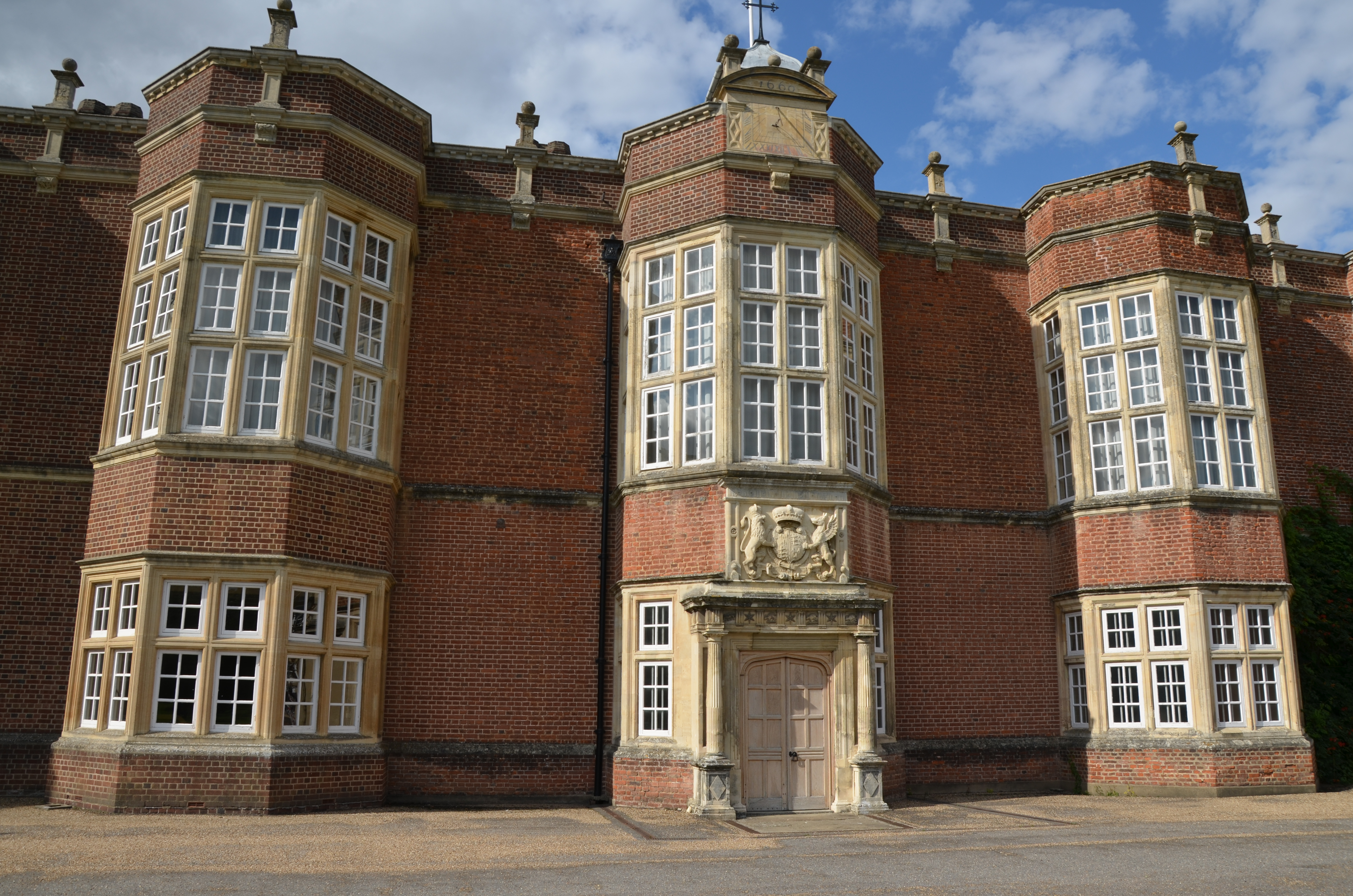 New Hall School 2014